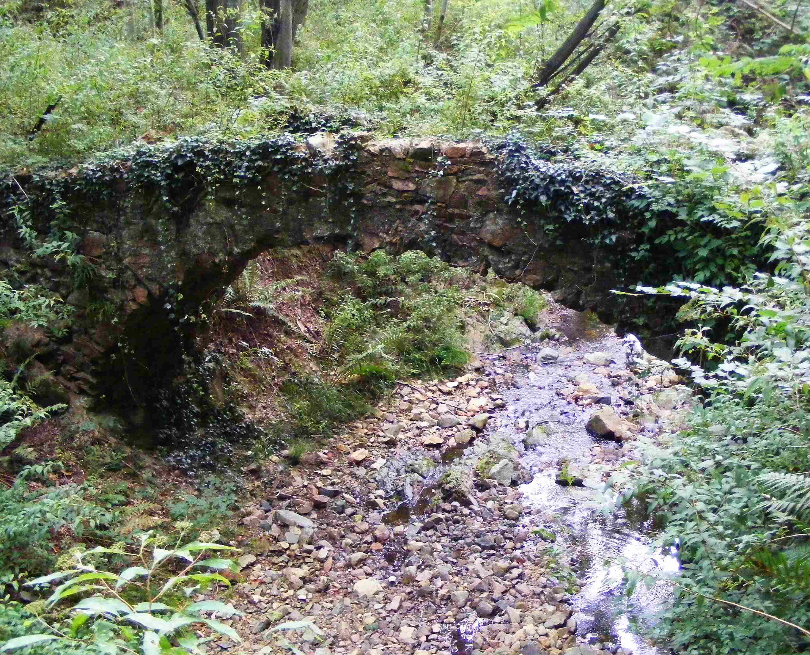 Old bridge on Bisingana creek near Curino (BI, Italy)